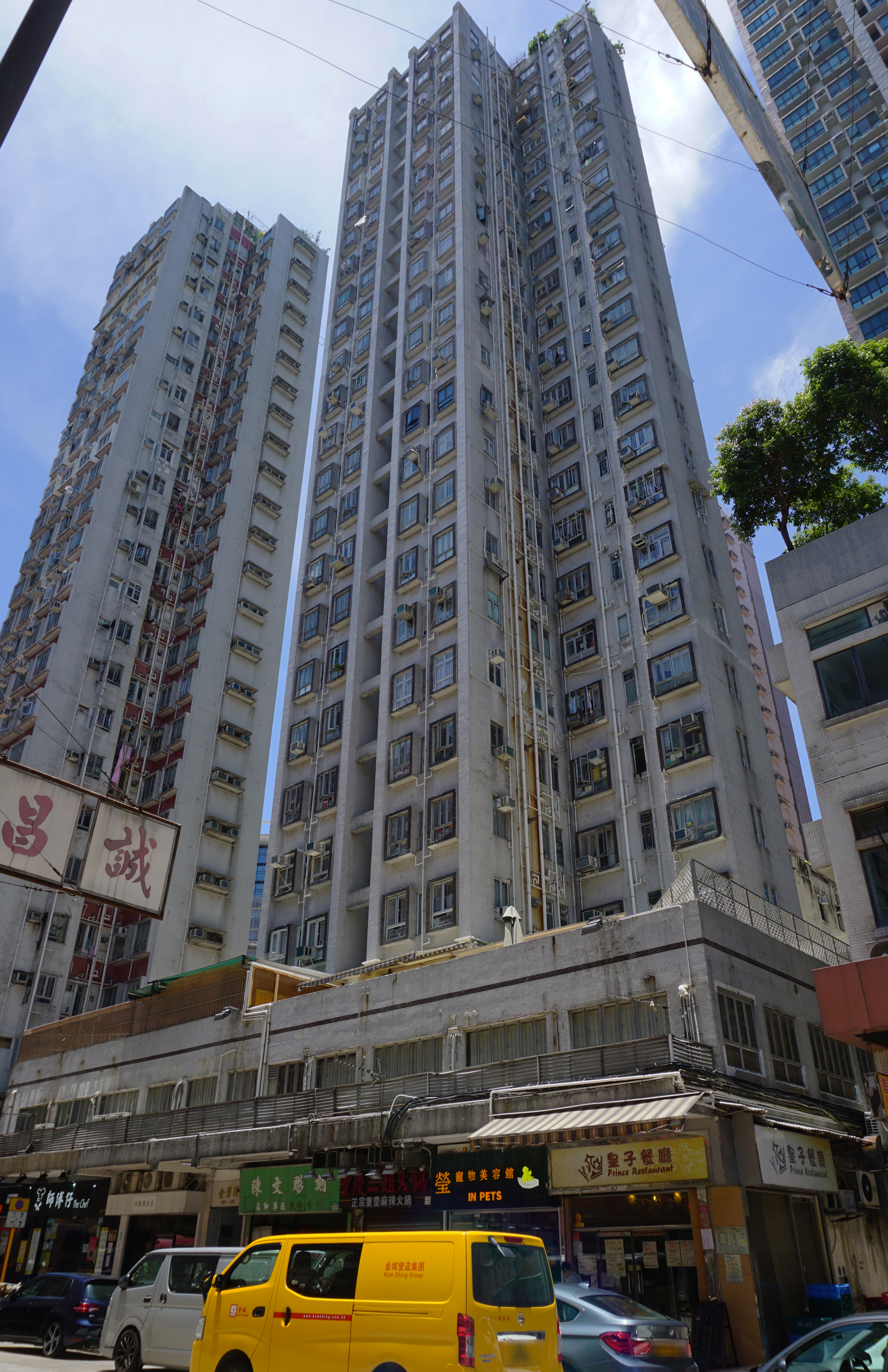 Golden Jade Heights in Cheung Sha Wan, Hong Kong.